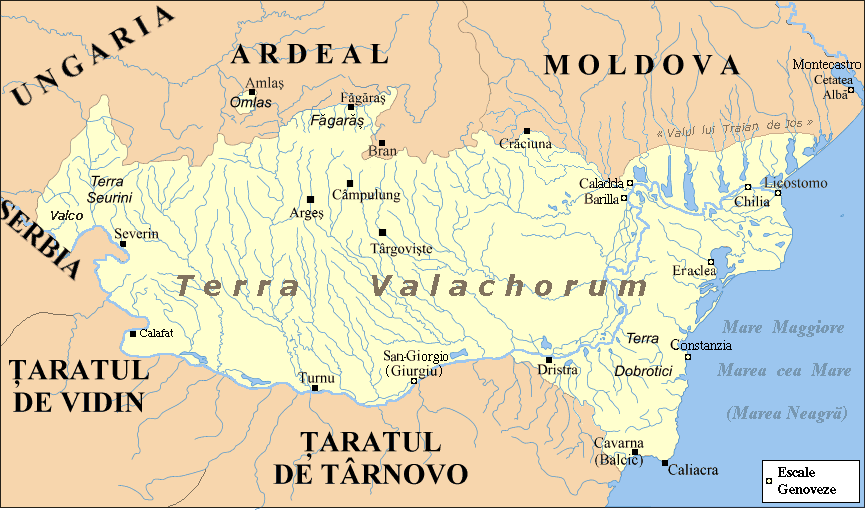 not on the map). Maximum expansion after 1404. This is made after Image:Tara Rumaneasca map.png.